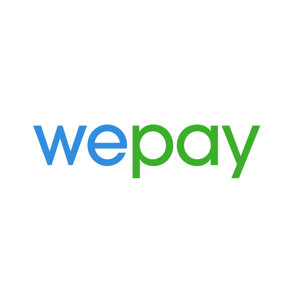 WePay Logo